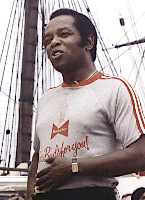 Lou Rawls in Baltimore, 1980